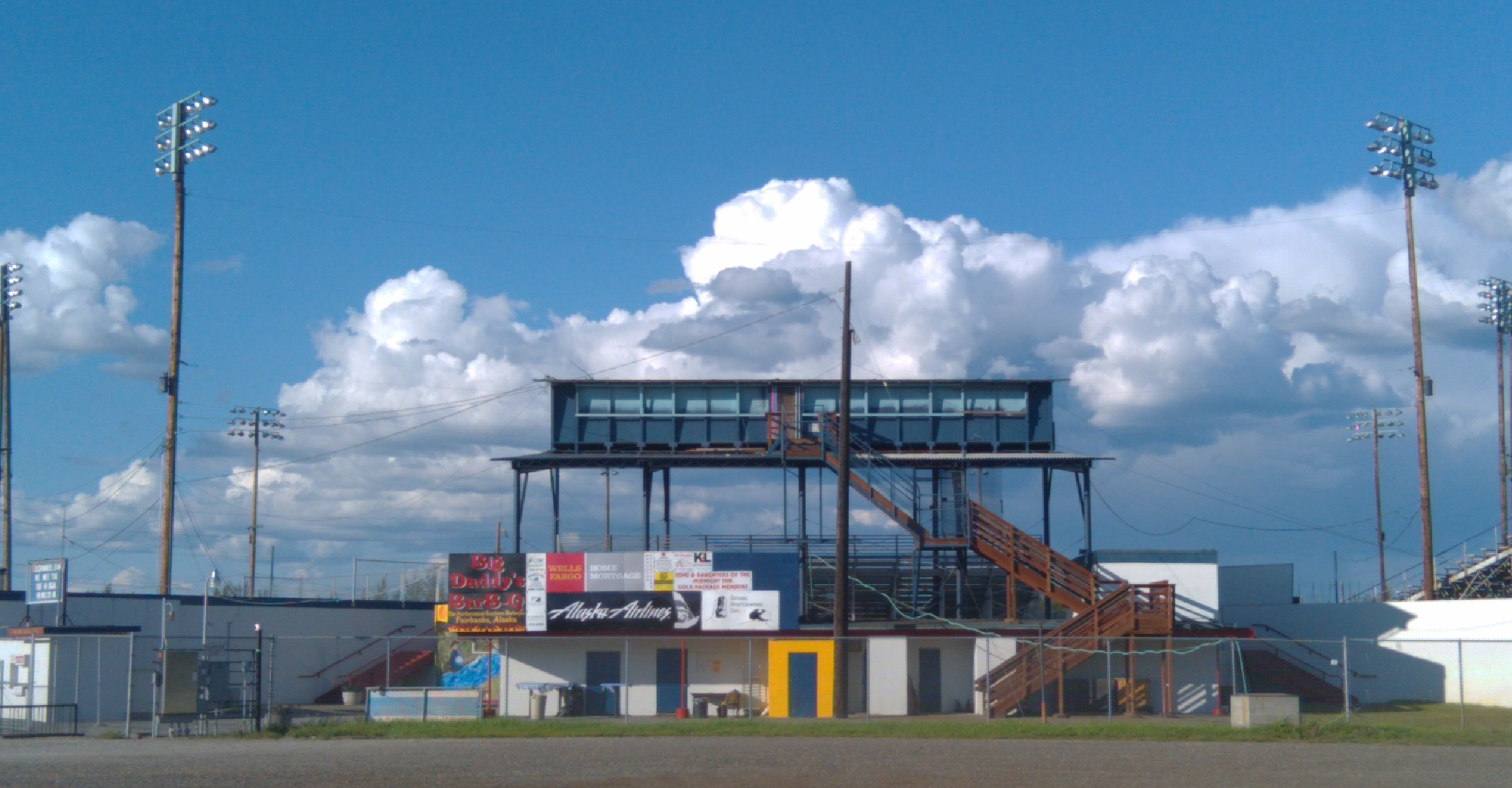 A wider angle of Growden Memorial Park in Fairbanks, Alaska, showing box seats and the press box. Growden Park was named for James "Jim" Growden, a local Fairbanksan who died when Valdez Harbor collapsed in the aftermath of the 1964 Alaska earthquake. The park is one of the original Fairbanks city parks which was transferred to the Fairbanks North Star Borough when they acquired parks and recreation powers. I believe the Goldpanners also bill it as the oldest lighted park in Alaska.